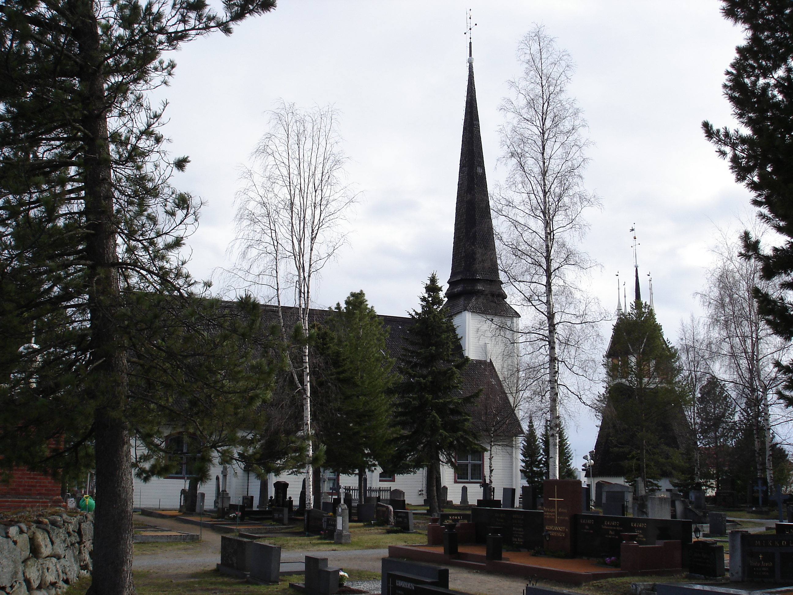 Tornio Church in Tornio, Finland.